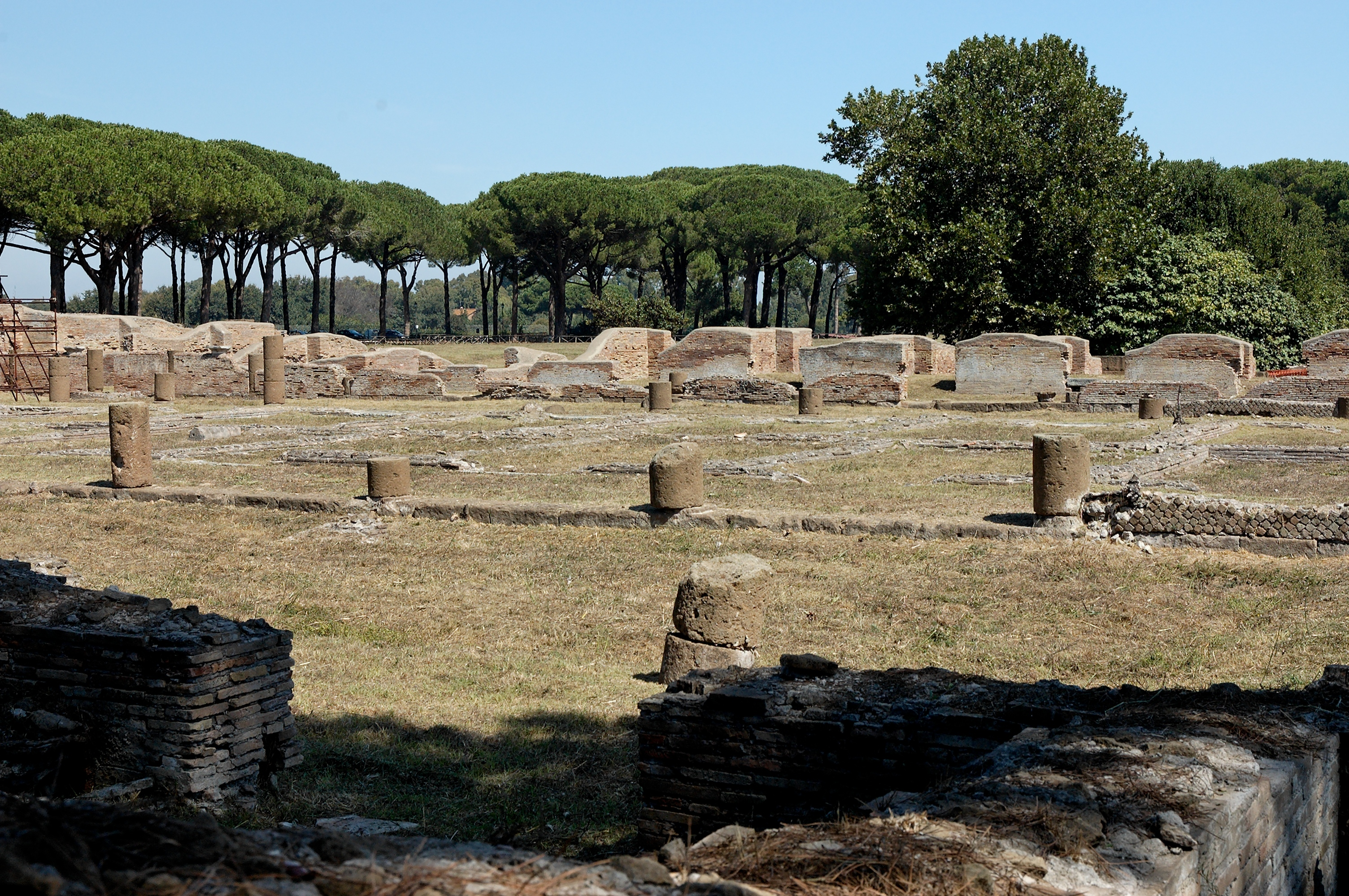 Grandi Horrea (Great Store Building), Ostia Antica, Latium, Italy.